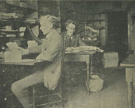 Editors of the Finnish American socialist newspaper "Työmies" (The Working Man) in Hancock, Michigan 1904. J. A. Harpet (left) and Vihtori Kosonen.